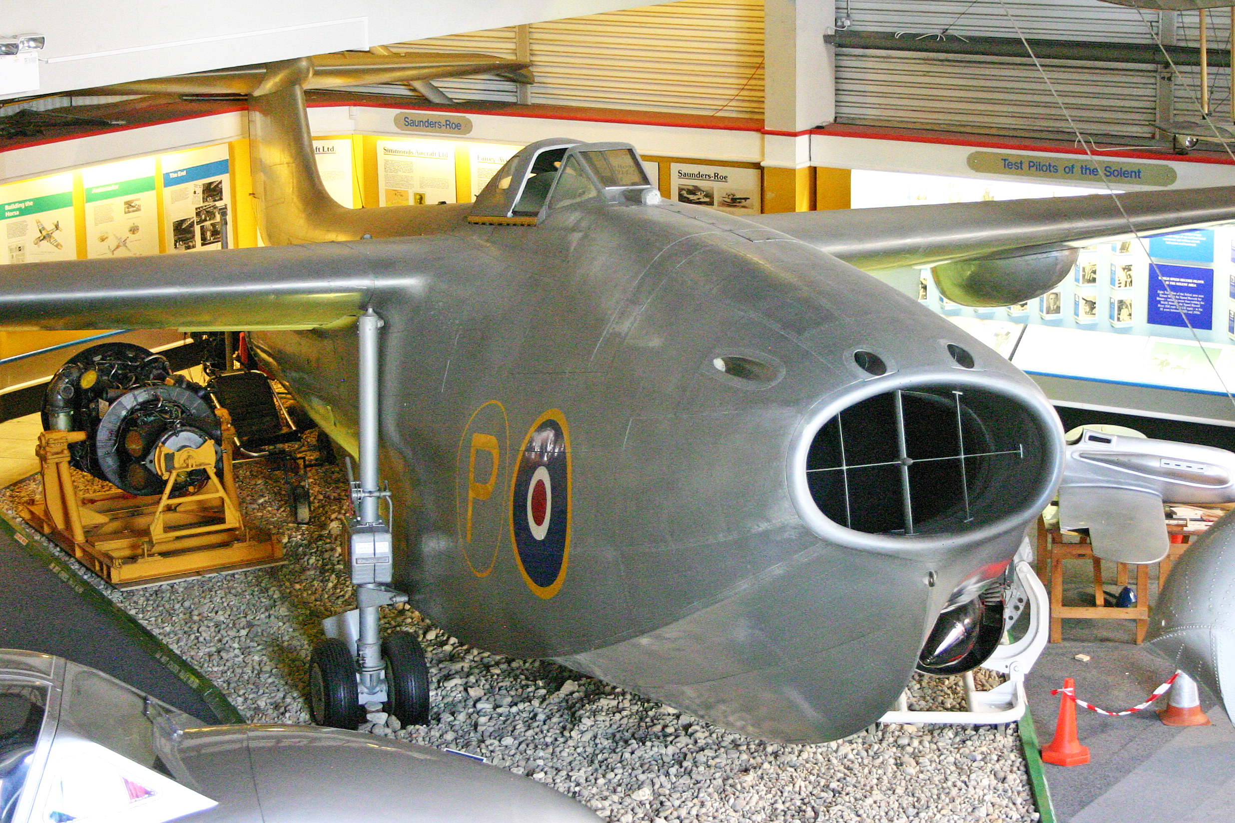 Also allocated British test registration G-12-1. Displayed in main hall. Solent Sky, Southampton. 14-6-2011